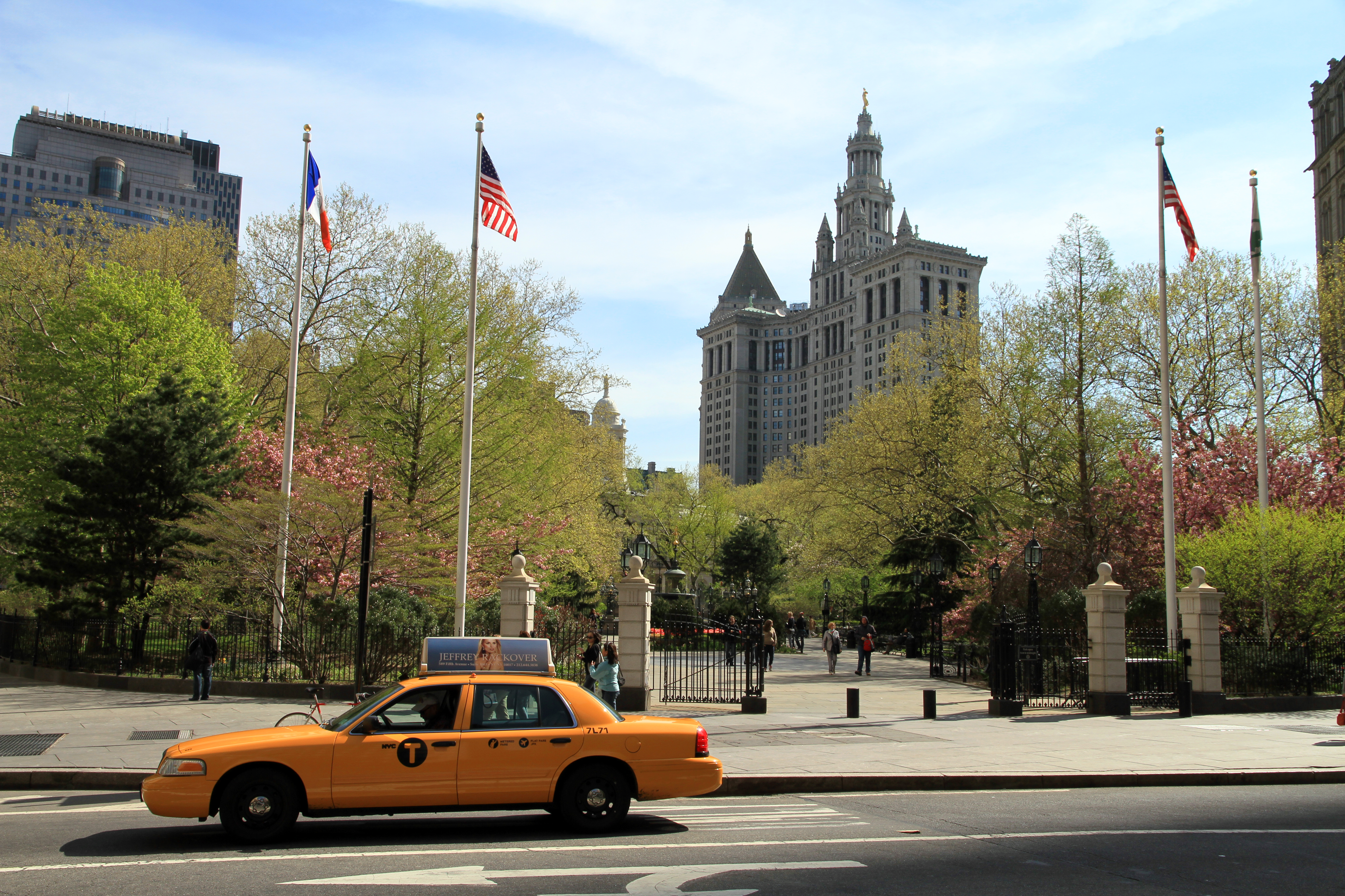 City Hall Park